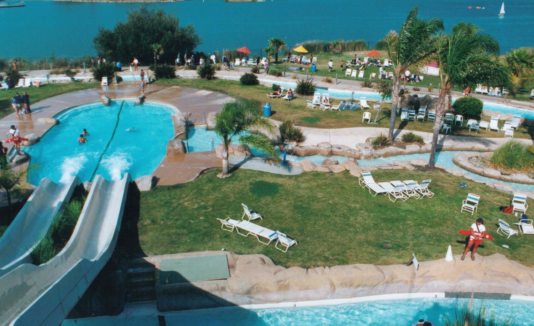 Place: USA/California/San Francisco Bay Area/San Jose/Evergreen/Raging Waters Image 00919.